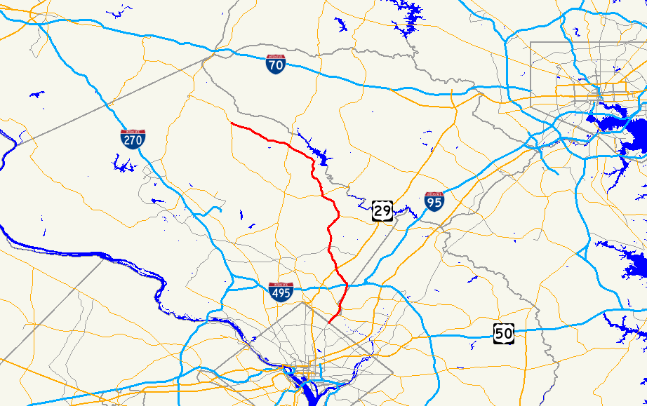 Map of Maryland Route 650